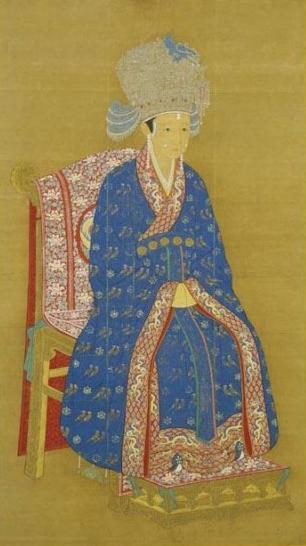 The Official Imperial Portrait of Song Dynasty's Empresses